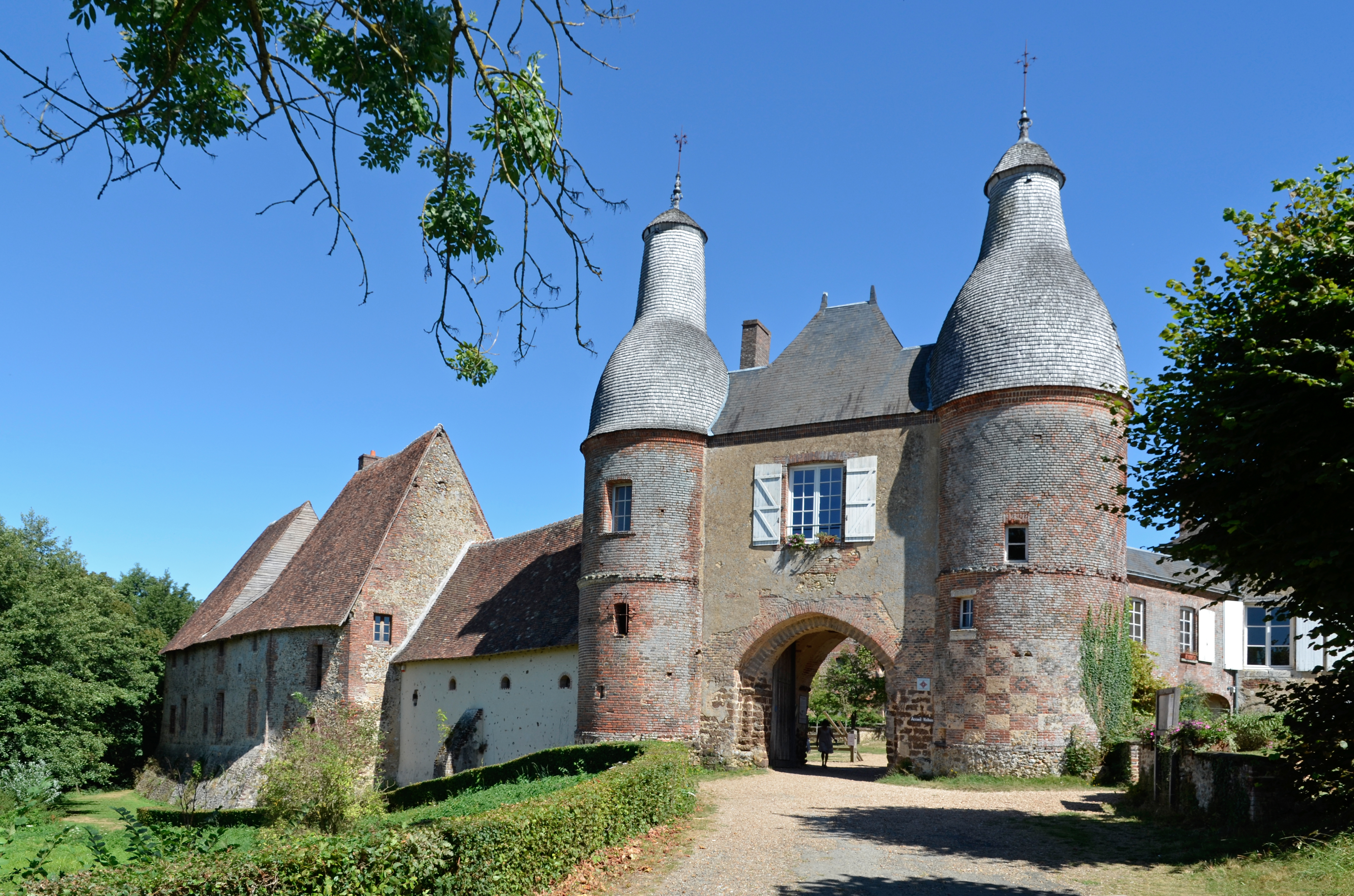 Commandry of Arville - Loir-et-Cher, France .